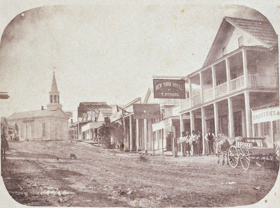 Nevada City c 1856 by Julia Ann Rudolph (c. 1820-c. 1900)[1] was a 19th century American studio photographer active in both New York and California.- c 1856